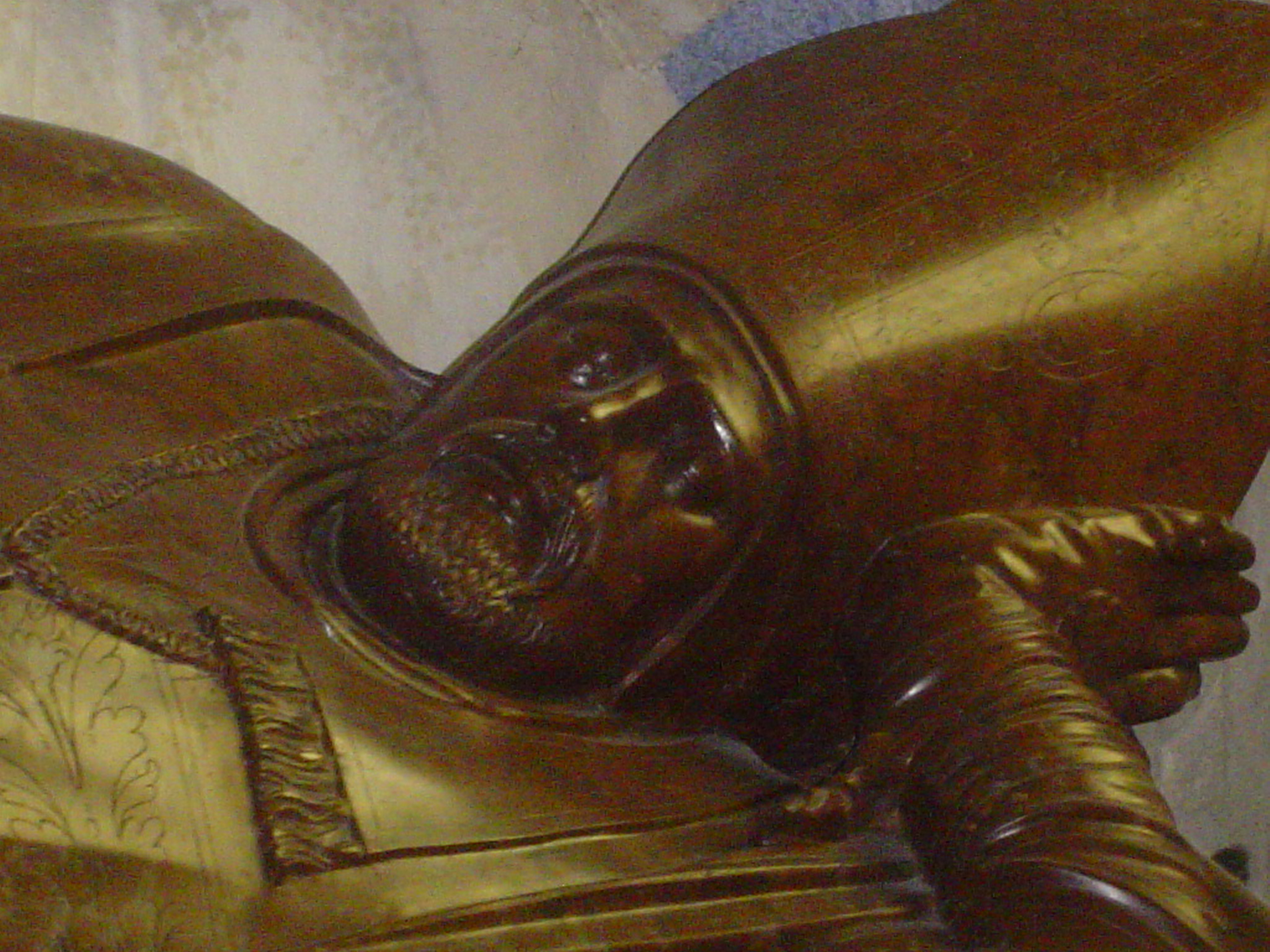 The face of Wawrzyniec Goślicki, old Polish bishop and politologist, from his tomb sculpture